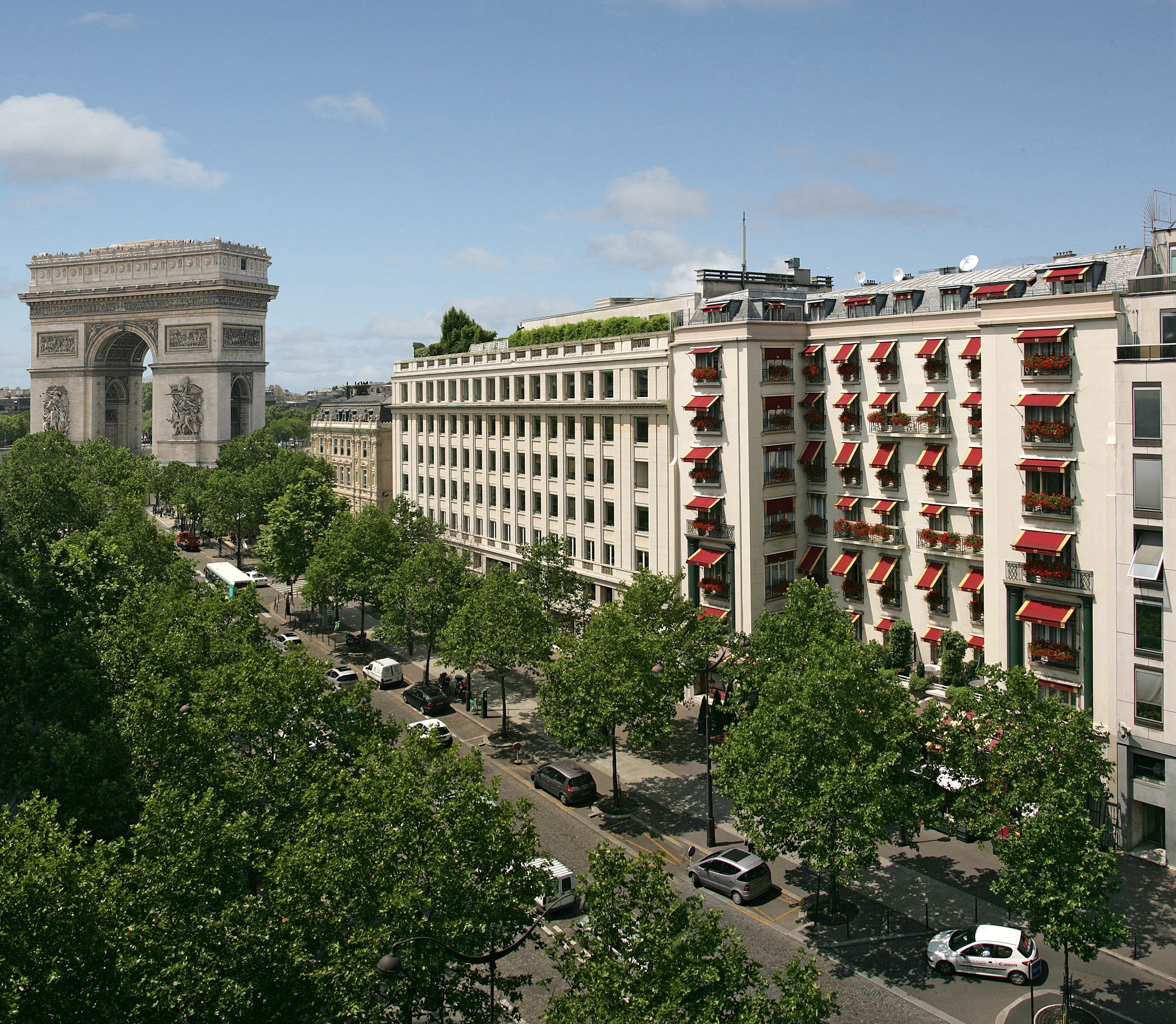 Outside view of the Paris Napoléon Hotel.